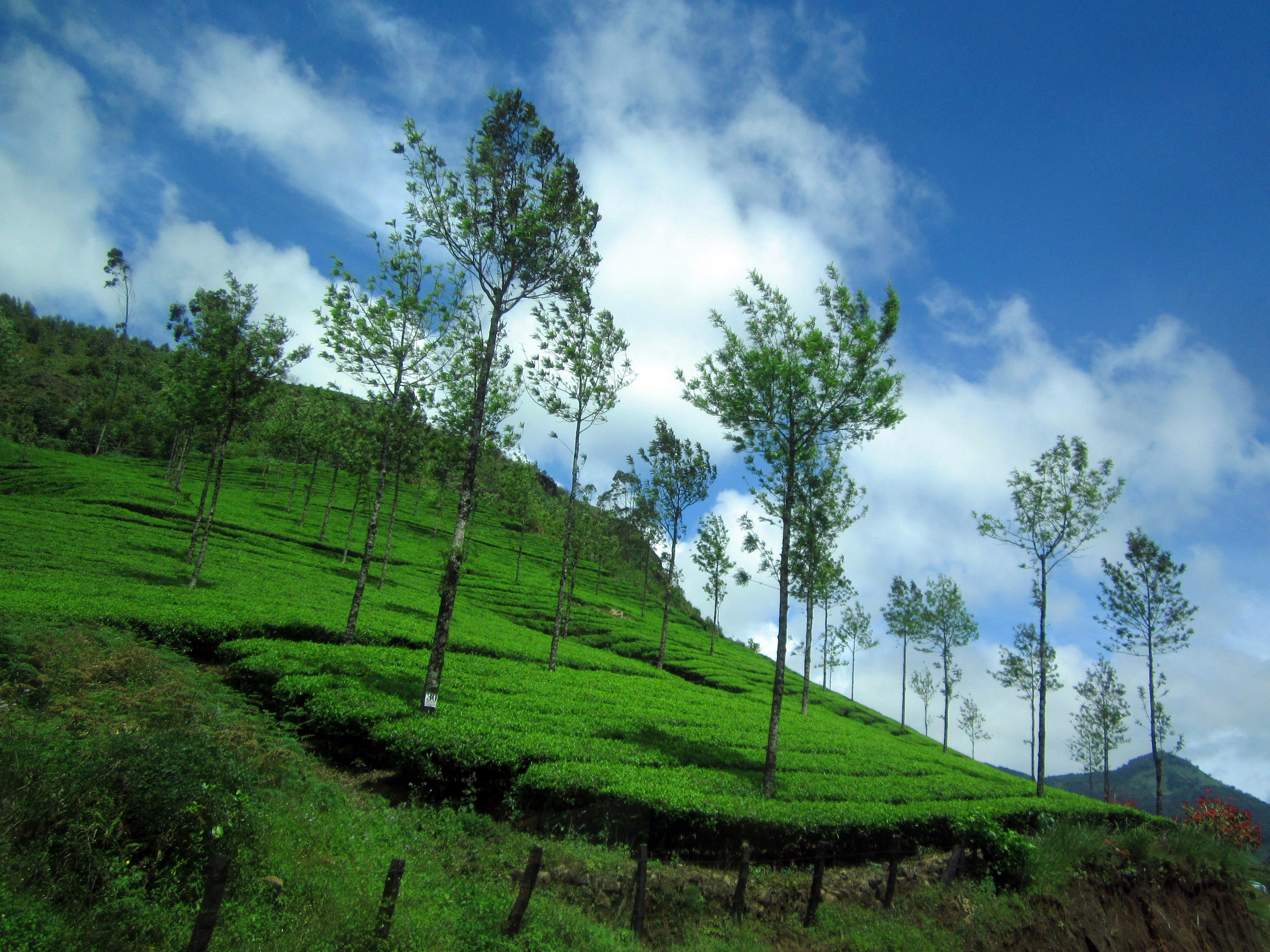 Munnar hillscape with tea gardens.